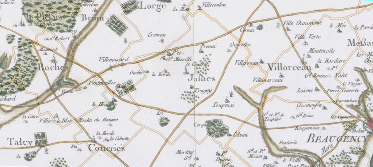 Portion of Cassini map showing the small town of Josnes and its territory, in the Loir-et-Cher departement, region Centre-Val-de-Loire, France. Limits of communes are showed in pale yellow.